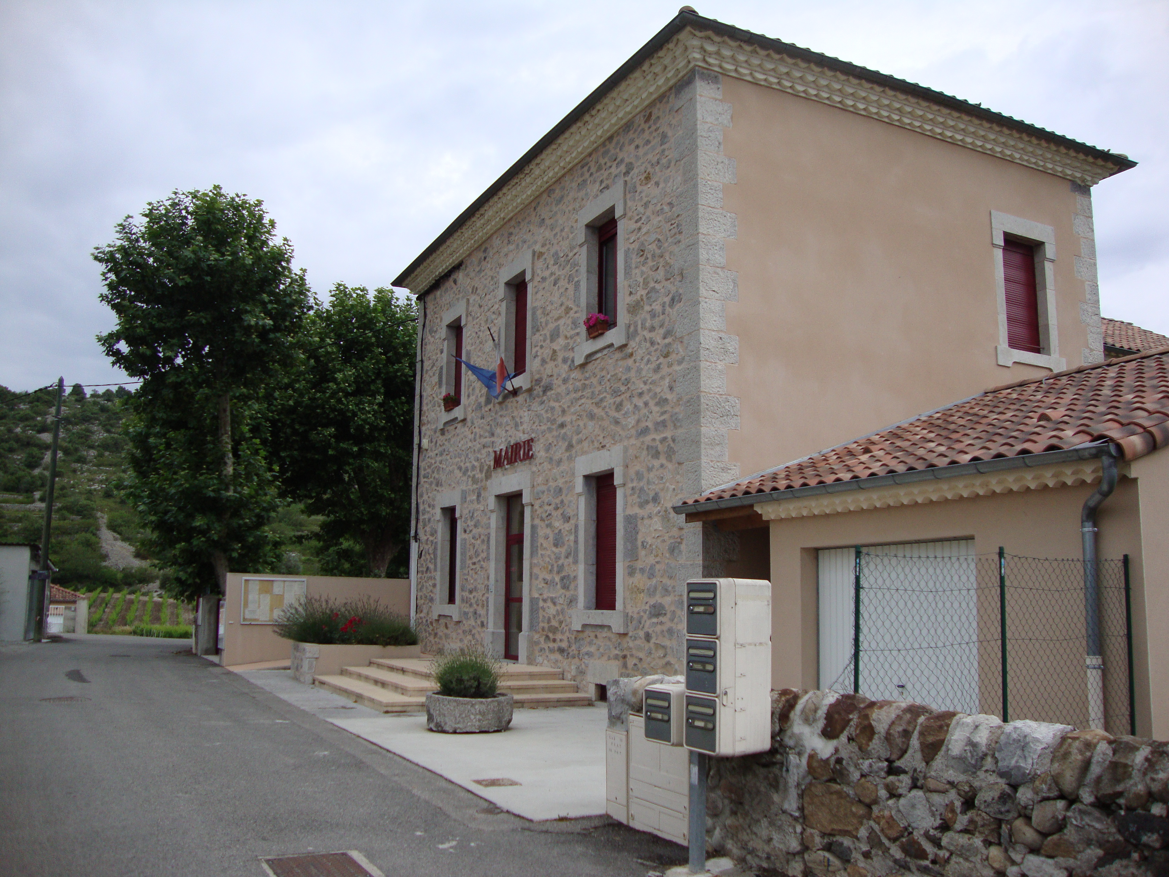 Lanas (Ardèche, Fr) town hall